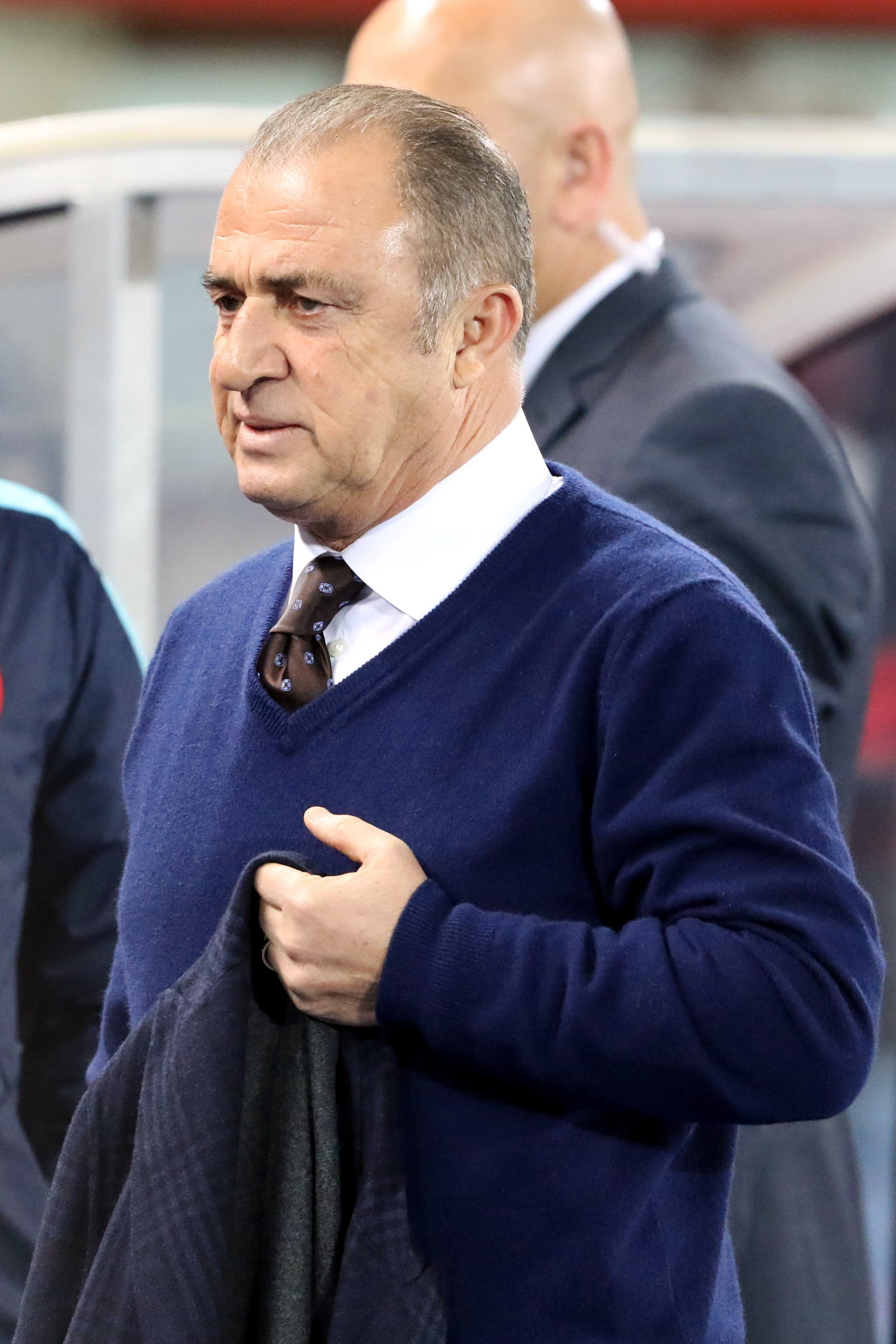 Friendly match – Austria (red shirts) vs. Turkey (blue shirts) 1–2 (1–1) on 2016-03-29 in Ernst-Happel-Stadion, Vienna – The photo shows Fatih Terim (headcoach) of Turkey national football team.